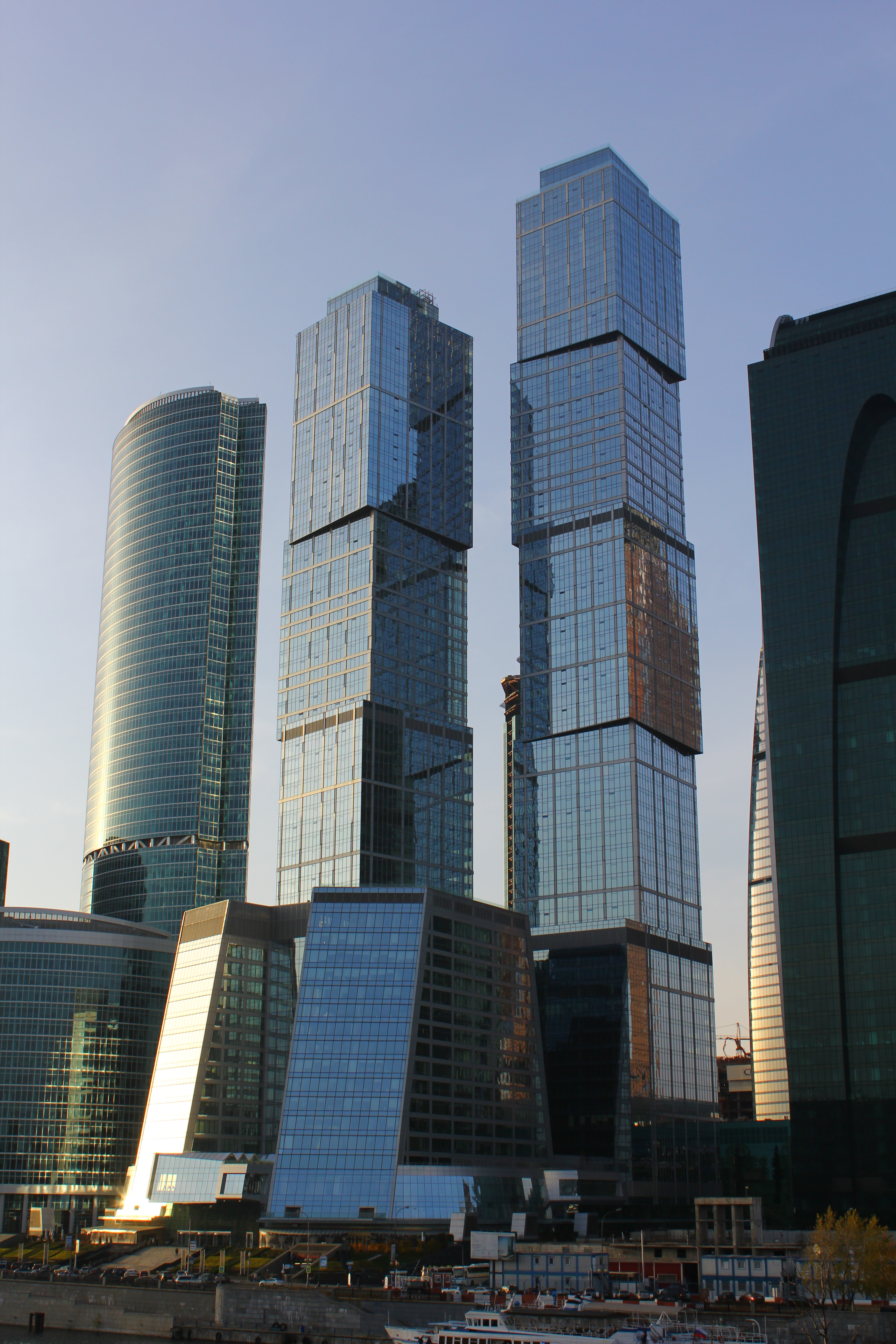 City Of Capitals 20th October 2012